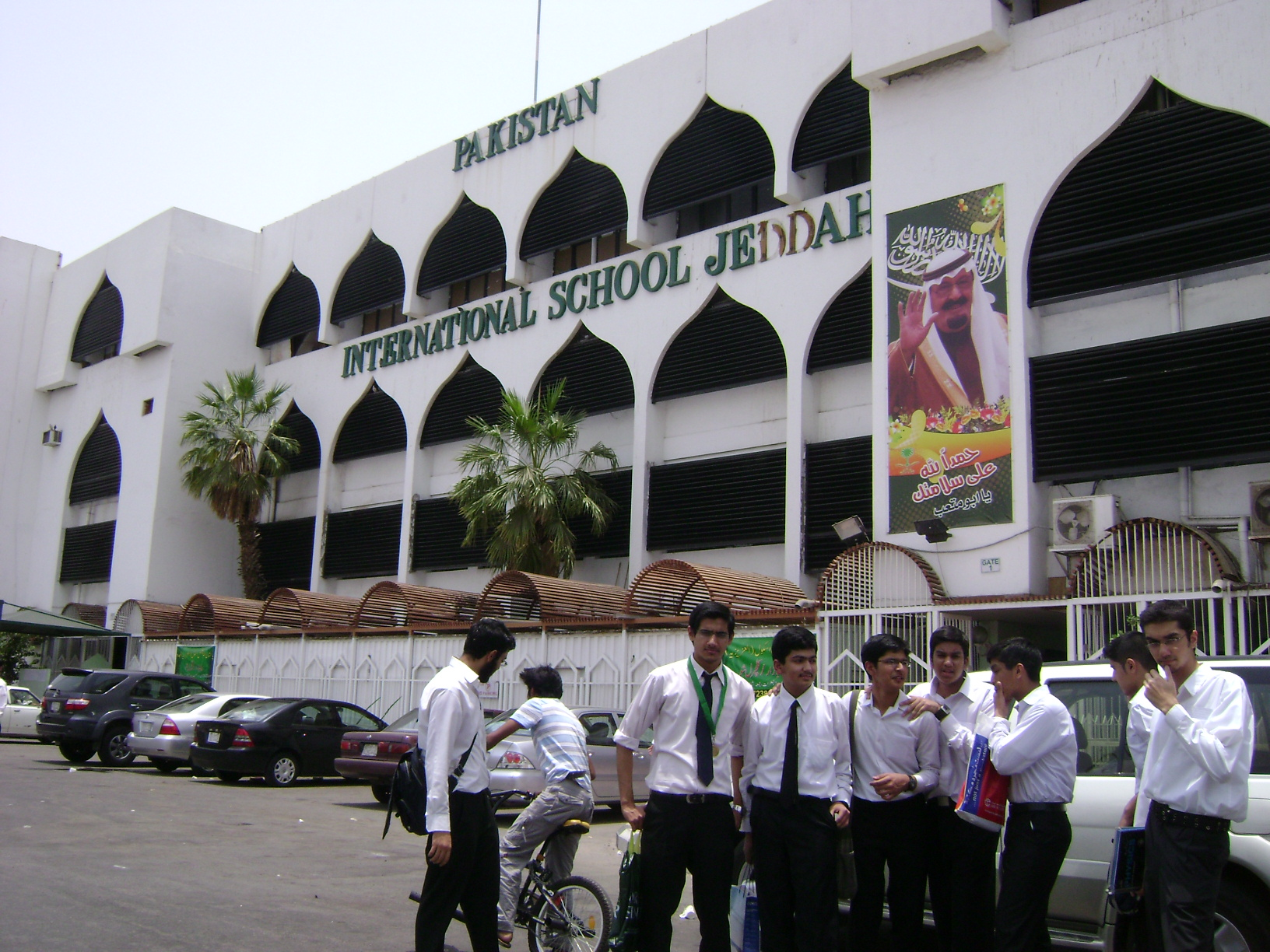 PISJ Senior Boys Uniform